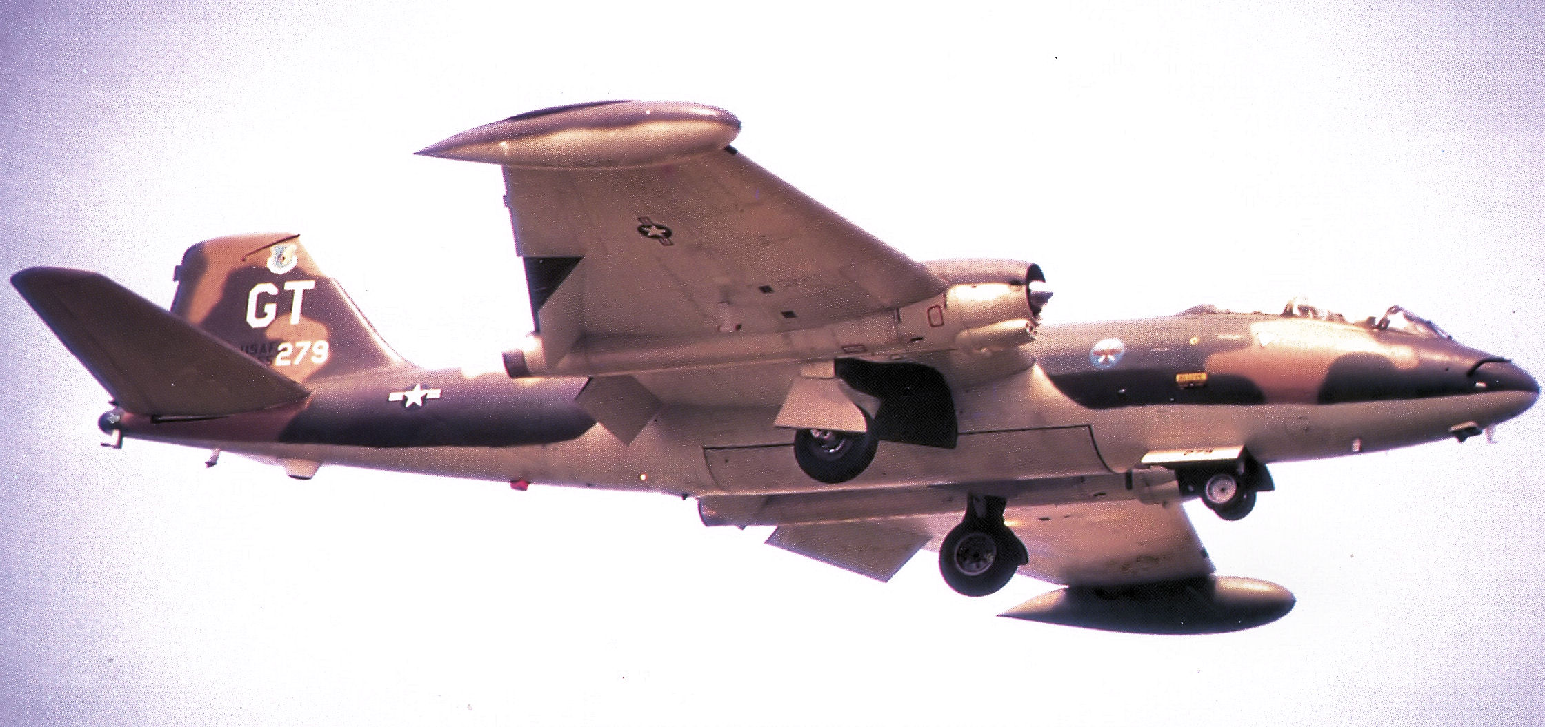 Martin EB-57E-MA 55-4279 556th Reconnaissance Squadron Kadena AB. Now at Peterson Air and Space Museum, CO.